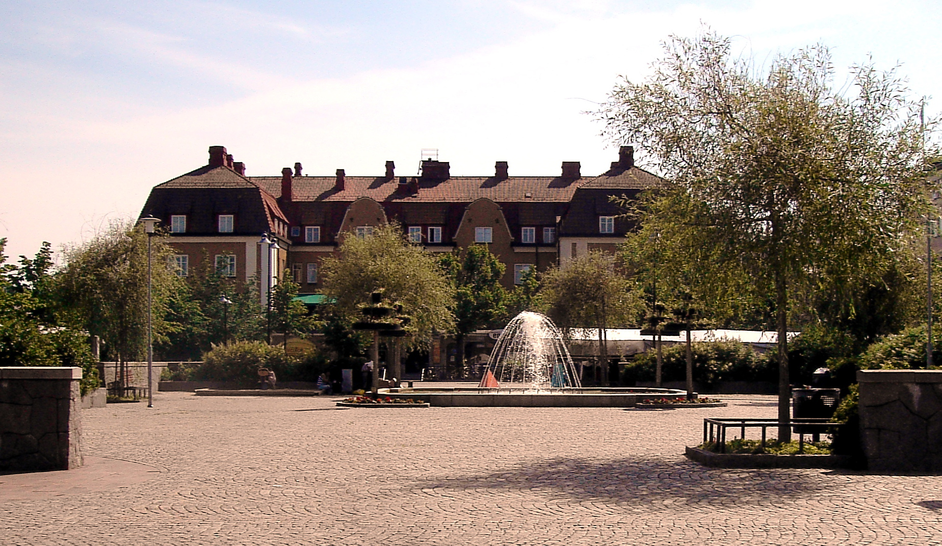 Main square in Katrineholm